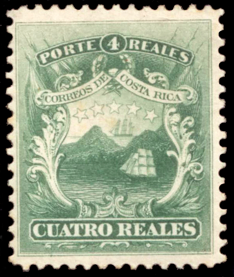 4 Reales Costa Rican postal stamp. This stamp belong to the first series of four postal stamps (each of a different color) issued in Costa Rica in 1864.